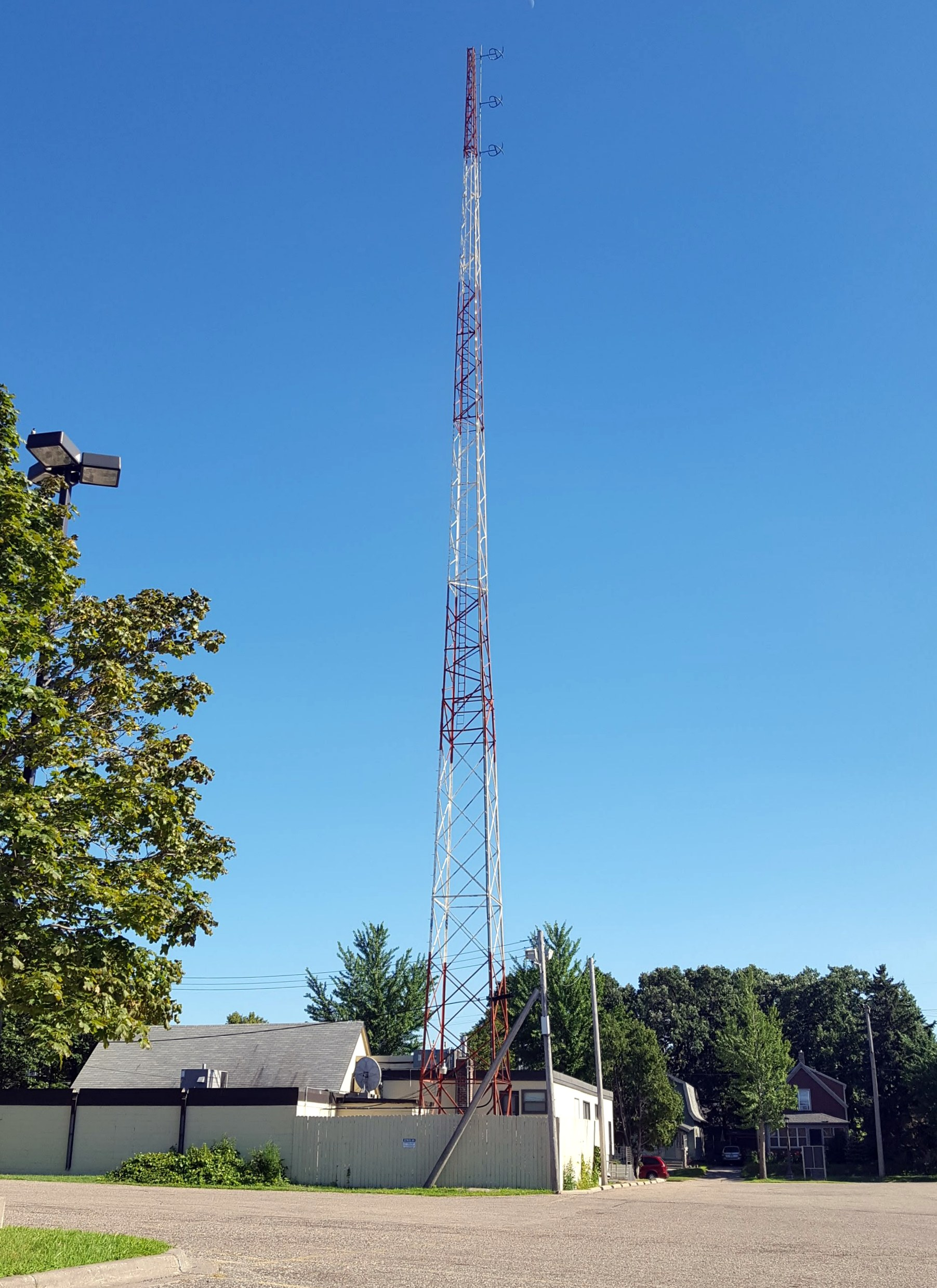 The radio tower for KNOF 95.3 FM St. Paul, MN with studios below. The station was sold and is now KZGO FM broadcasting from the IDS Center in downtown Minneapolis.